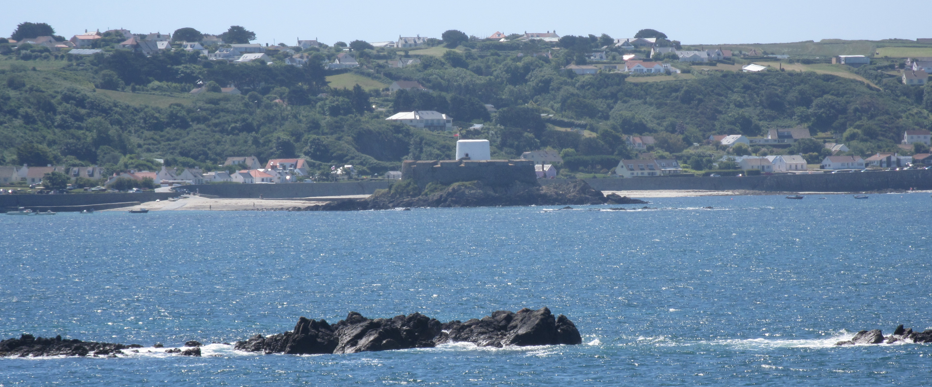 In Guernsey, 4 July 2010